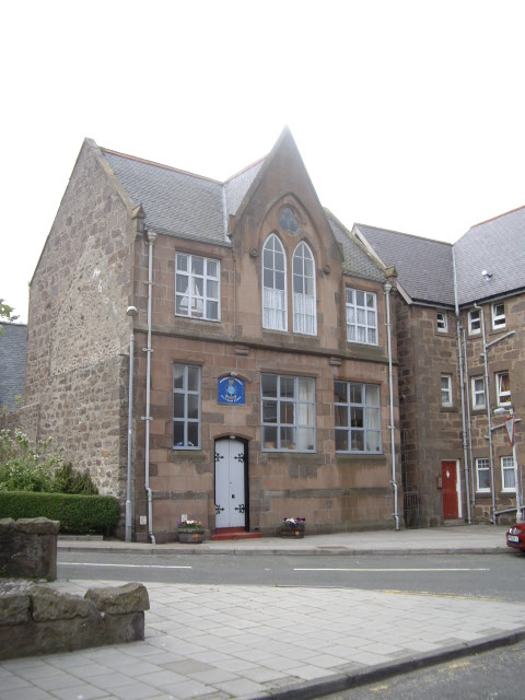 Sea Cadet Corps HQ Stonehaven.